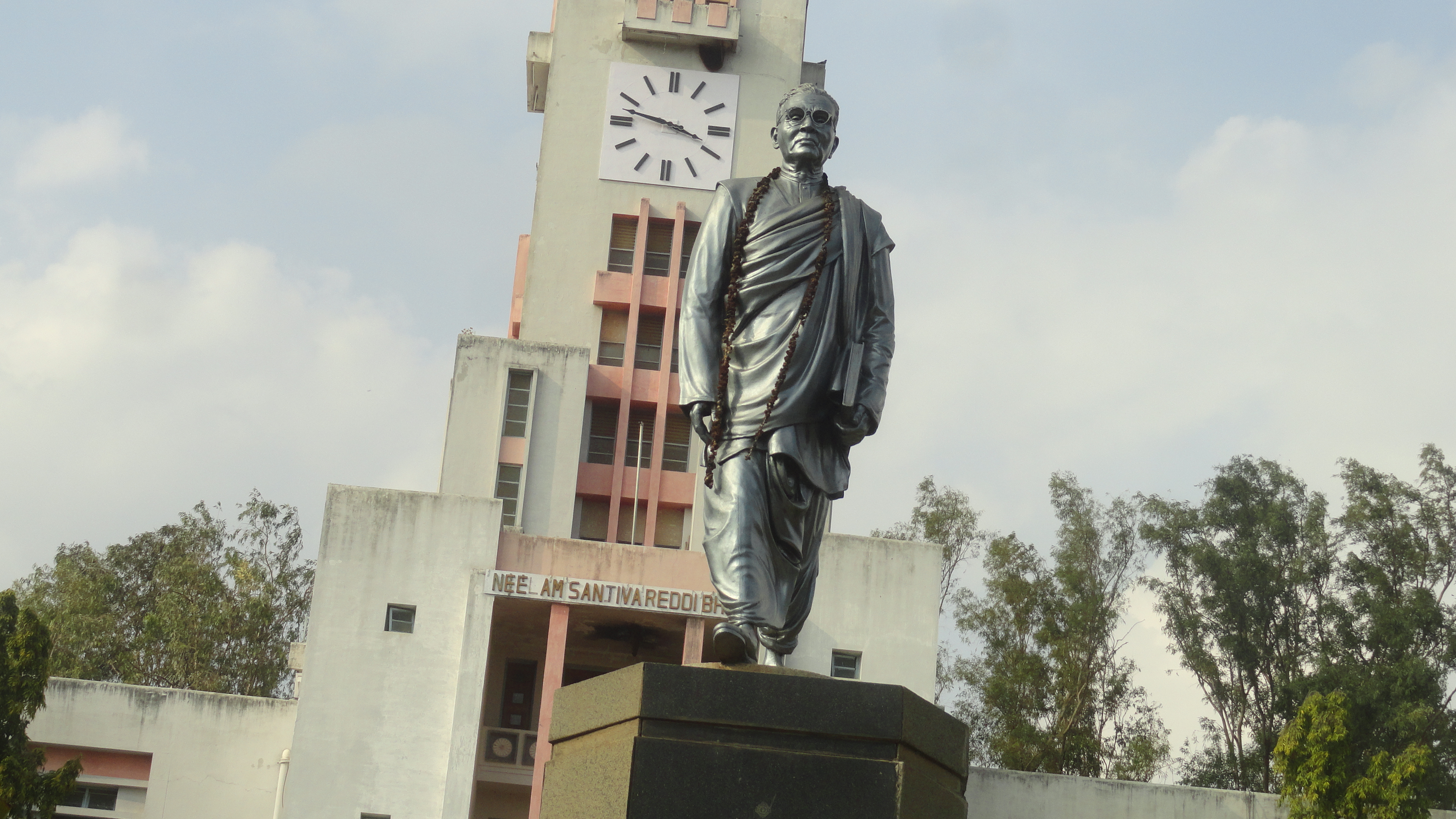 Nilam sanjeeva reddy.